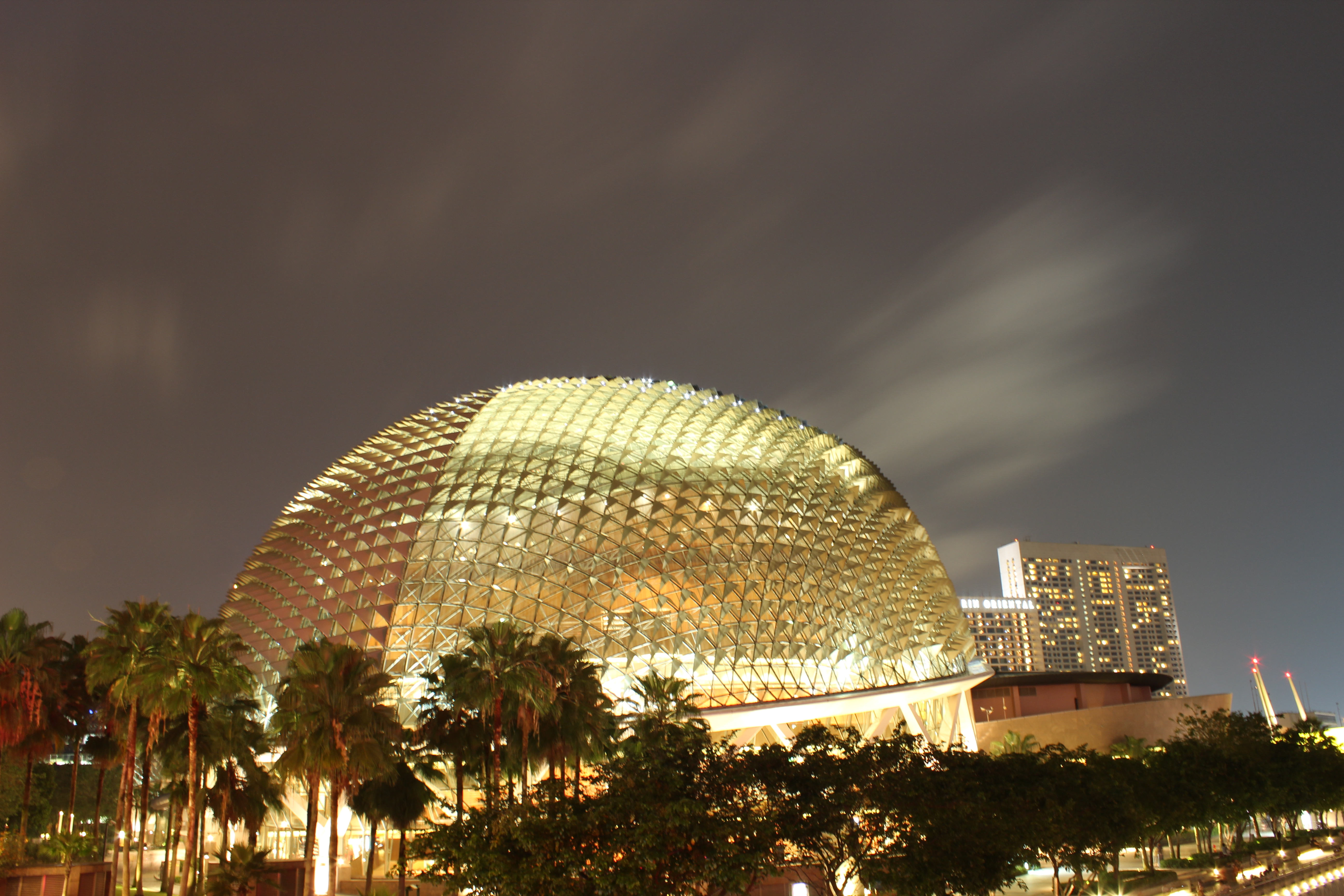 Esplanade - Theatres on the Bay on a night in March 2011. © 2011 Lim Toh Han.